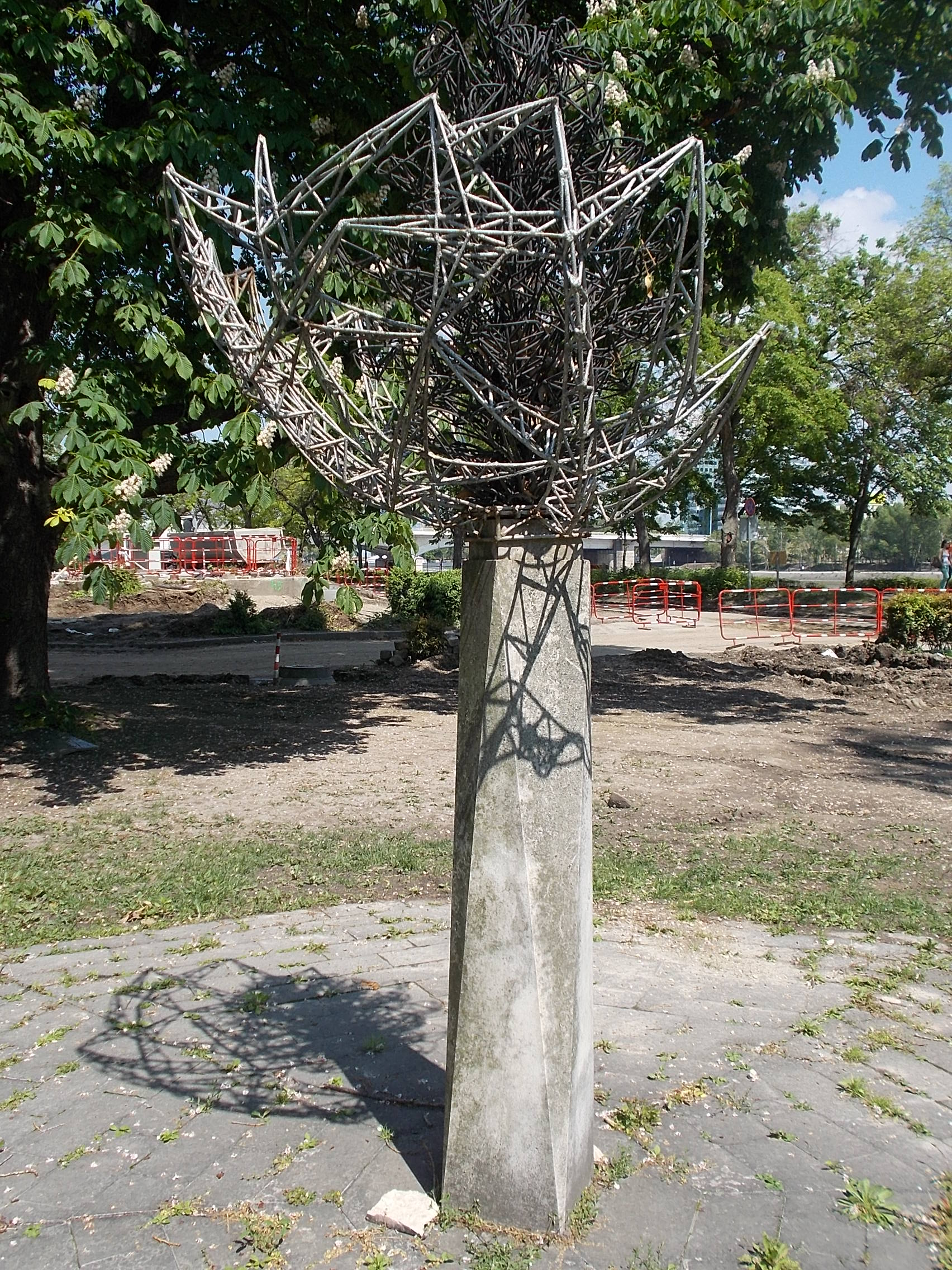 Conifer cones sculpture by Tamás Fekete ( wire, erected in 2004, originally in 1979) - behind the Thermal Hotel of Margaret Island, Budapest, Hungary.